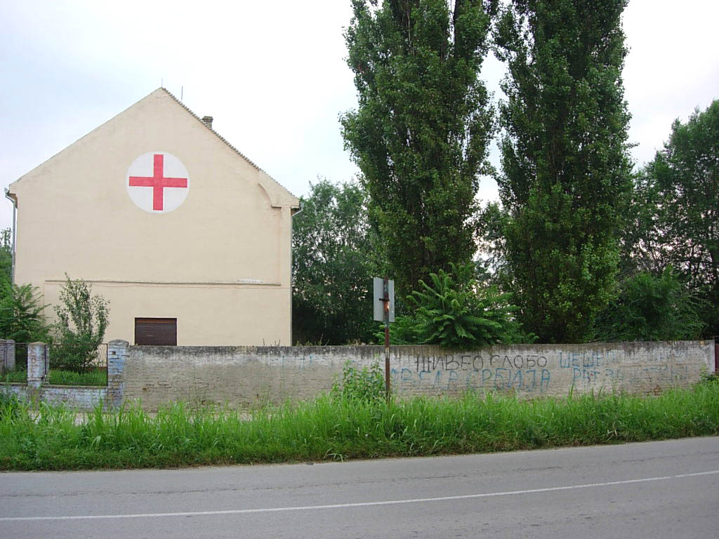 The health centre in Ravno Selo.